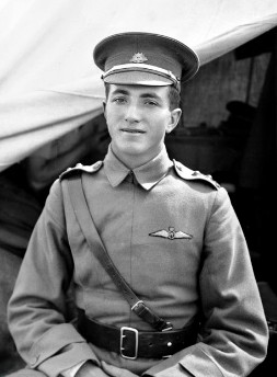 Australia: Victoria, Melbourne, Point Cook. Portrait of Lieutenant (Lt) F H McNamara. This is one of a series of photographs taken by the Darge Photographic Company which had the concession to take photographs at the Broadmeadows and Seymour army camps during the First World War.